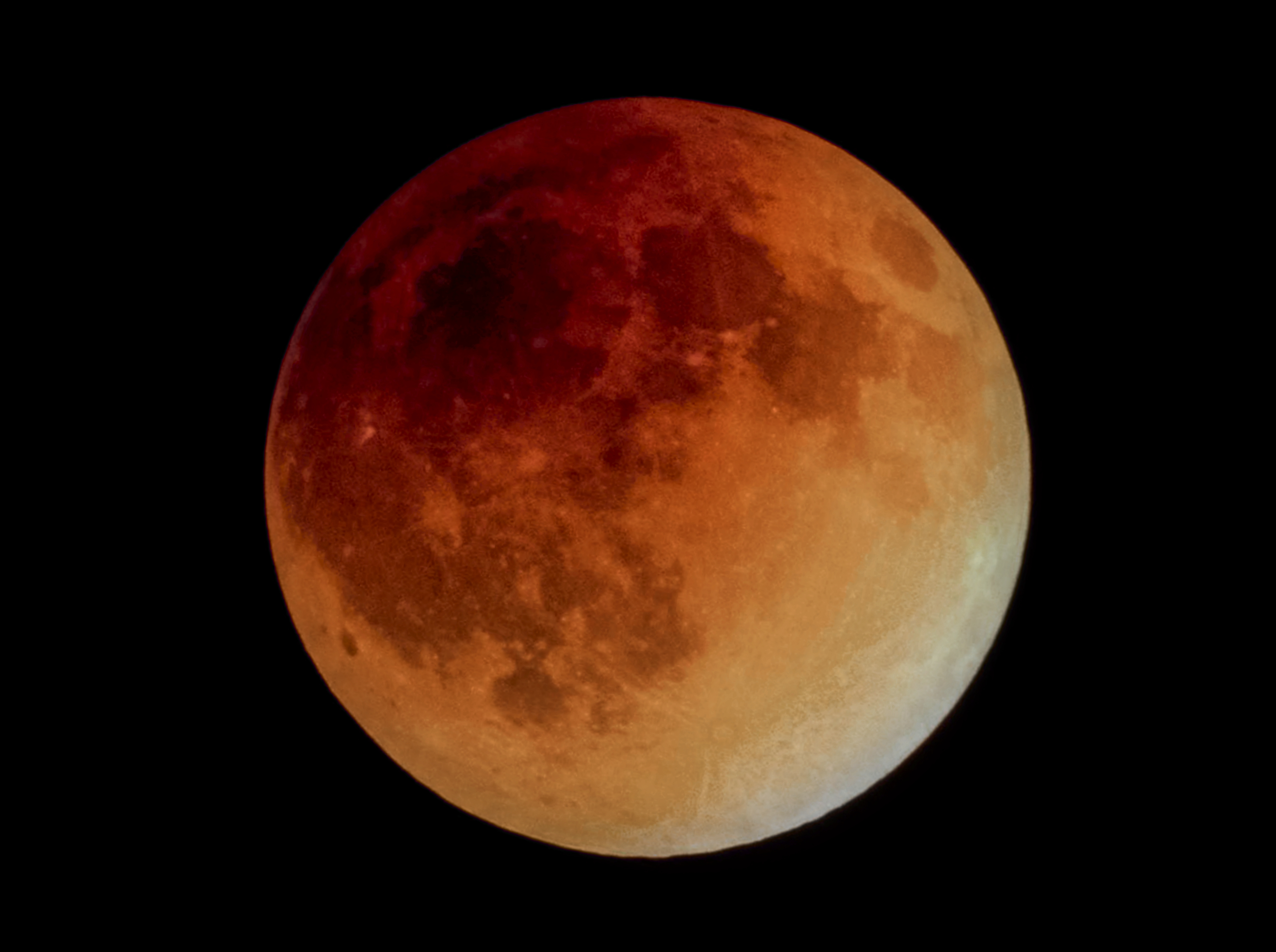 Total lunar eclipse on April 4, 1996 Talken with a N114/900 + 1.1x OCS + Kodak 200ISO film